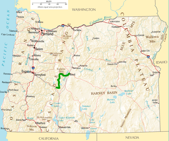 Cascade Lakes Scenic Byway highlighted in green on a map of Oregon © 2004 Matthew Trump based on :Image:National-atlas-oregon.png